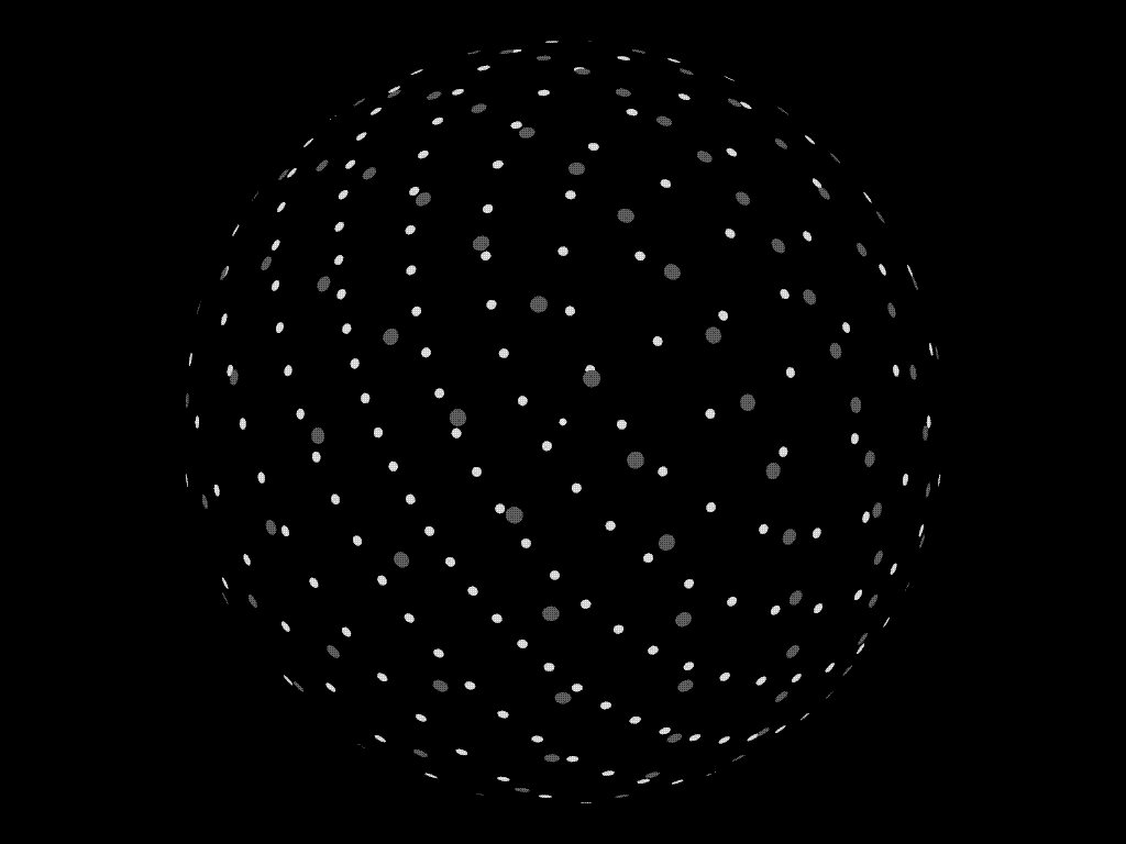 An illustration of simple Dyson Bubble:a simple arrangement of statites around the sun, in a non-orbital pattern. NB that so long as a solar statite has an unobstructed line-of-sight to the sun, it can hover at any point in space in the local vicinity of the sun. This arrangement is only one of an infinite number of possible statite configurations, and is meant as a contrast for a Dyson Swarm only. To scale. Sun is accurately colored according to spectral type. All statites are shown at a distance of 1 AU radius. statites are 1.0 x 107 km in diameter, or ~25 times the distance between the Earth and the Moon. Camera perspective is from a point 2 AU from the sun.